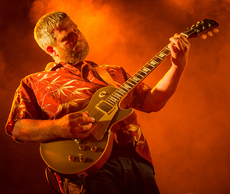 Viggo Krüger performs at a concert with Pogo Pops at Parkteatret in Oslo. Lineup: Frank Hammersland (bass and vocal) Viggo Krüger (guitar) Nikolai Hamre (drums)